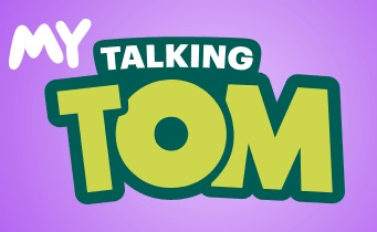 The logo of My Talking Tom app